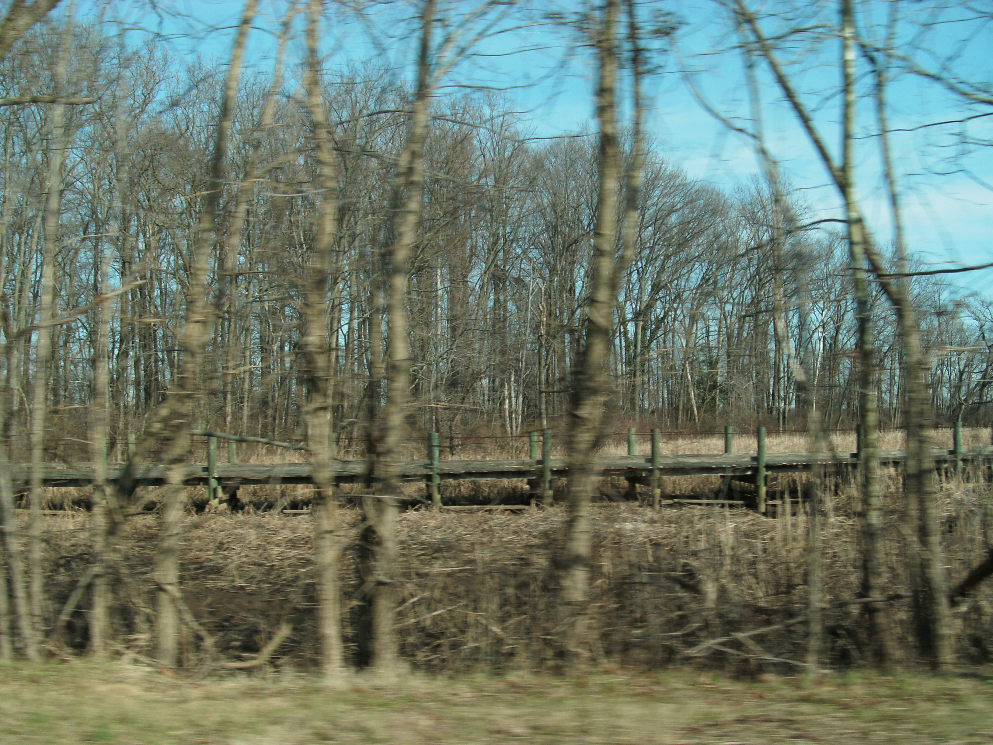 Boardwalk section of the Potomac Heritage National Scenic Trail — traversing above wetlands of the Potomac River in Fairfax County, Virginia. Local access is from the George Washington Memorial Parkway.